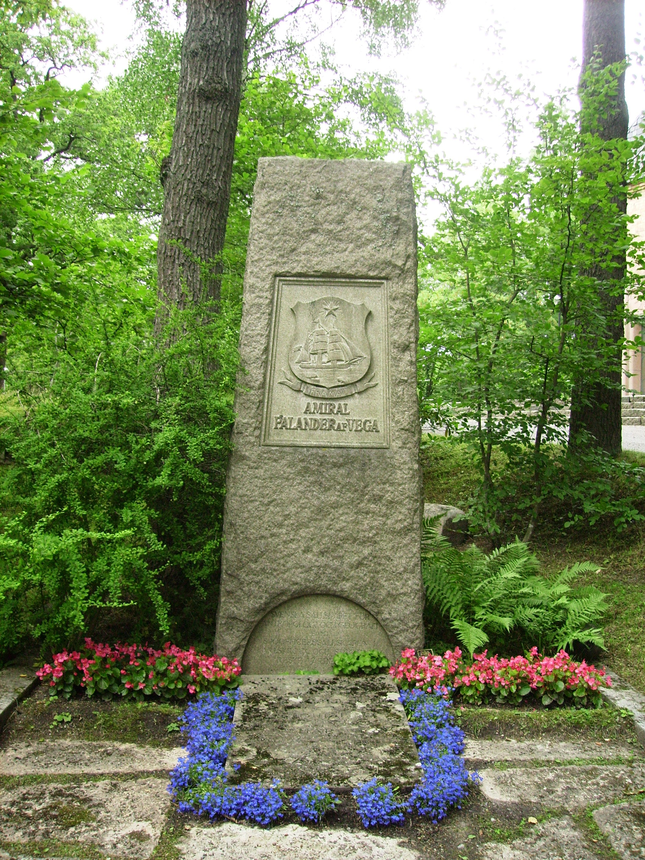 Picture of Palander af Vega's grave at Djursholms burial ground